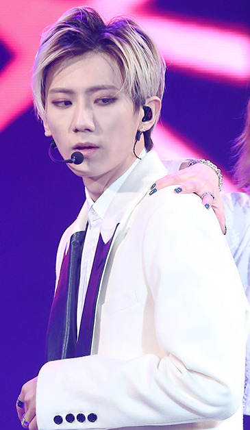 Trouble Maker performing at V-Pop Festival Concert on January 18, 2014.